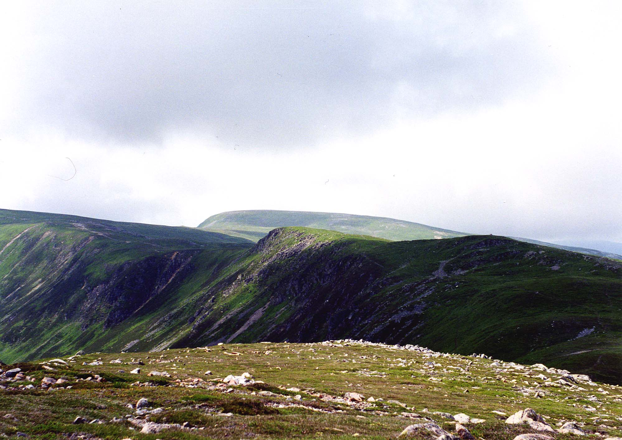 Personal picture taken by Mick Knapton